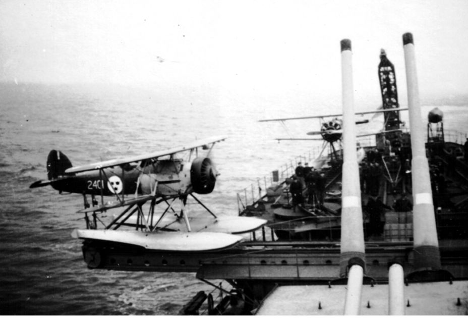 Hawker Osprey starting from Swedish aircraft crusier Gotland